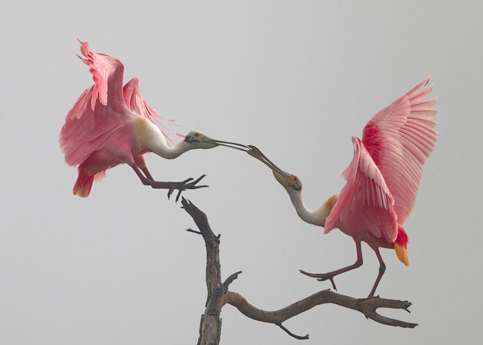 This photo of two roseate spoonbills on High Island off the Gulf Coast of Texas won the Nature’s Best Windland Smith Rice International Award for the bird category in 2011. It was taken by Michael Rosenbaum, a longtime volunteer at Florida’s Arthur R. Marshall Loxahatchee National Wildlife Refuge. Roseate spoonbills are among the 250+ bird species that nest or feed at Loxahatchee Refuge. The refuge preserves more than 220 square miles of the northern Everglades. Photo: Michael Rosenbaum, used by permission